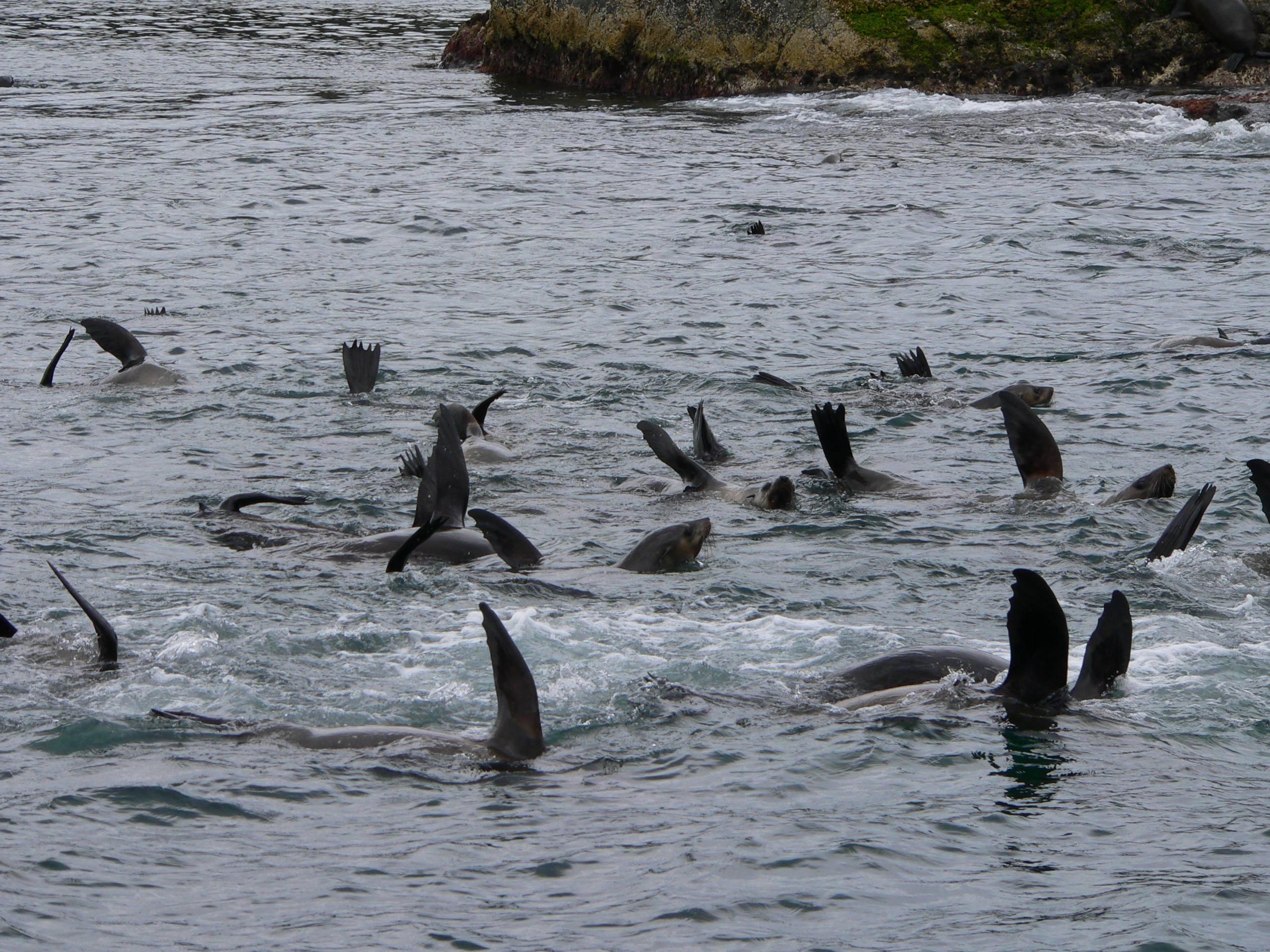 Seals at the northern end of Montague Island in October 2005